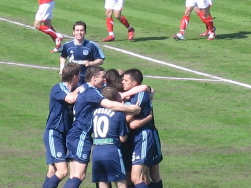 2006 Russian Premier League (FC Zenit St.Petersburg v.s. FC Spartak Moscow)